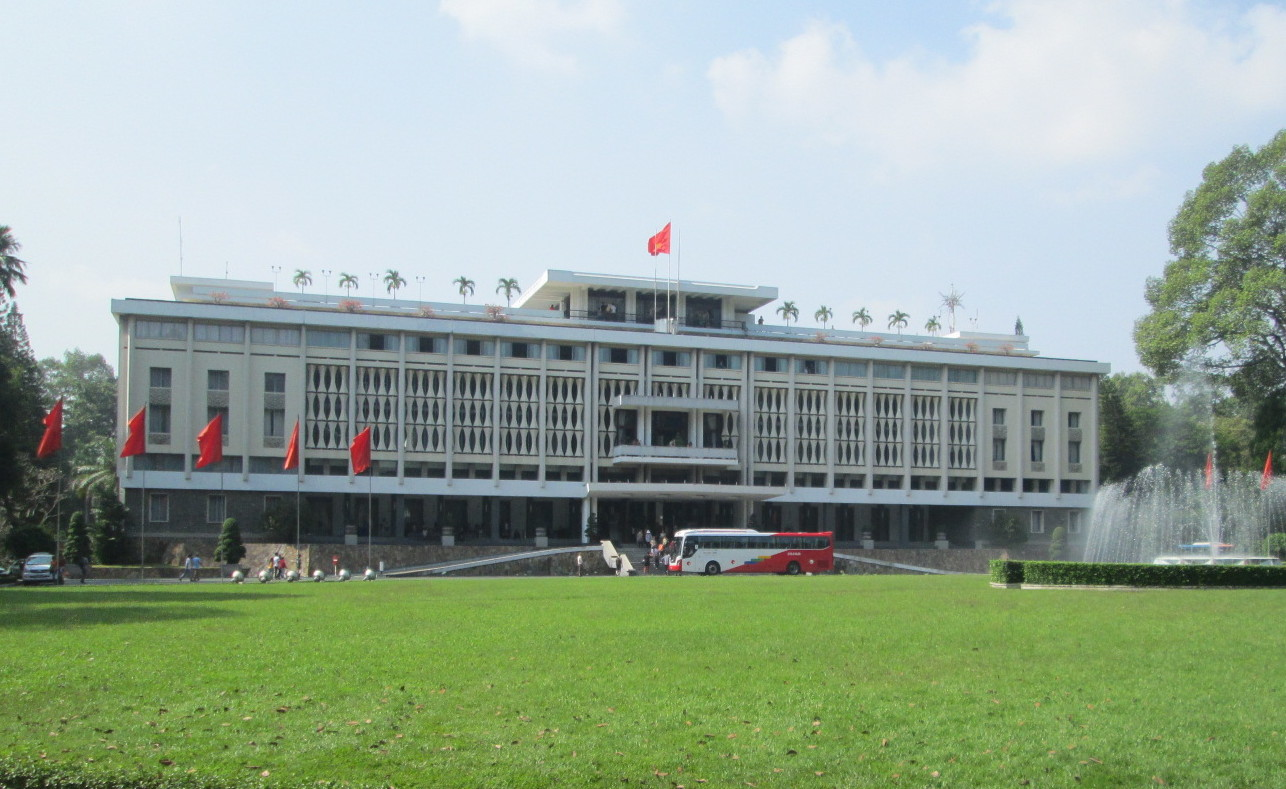 View of Independence Palace from the Palace Grounds.